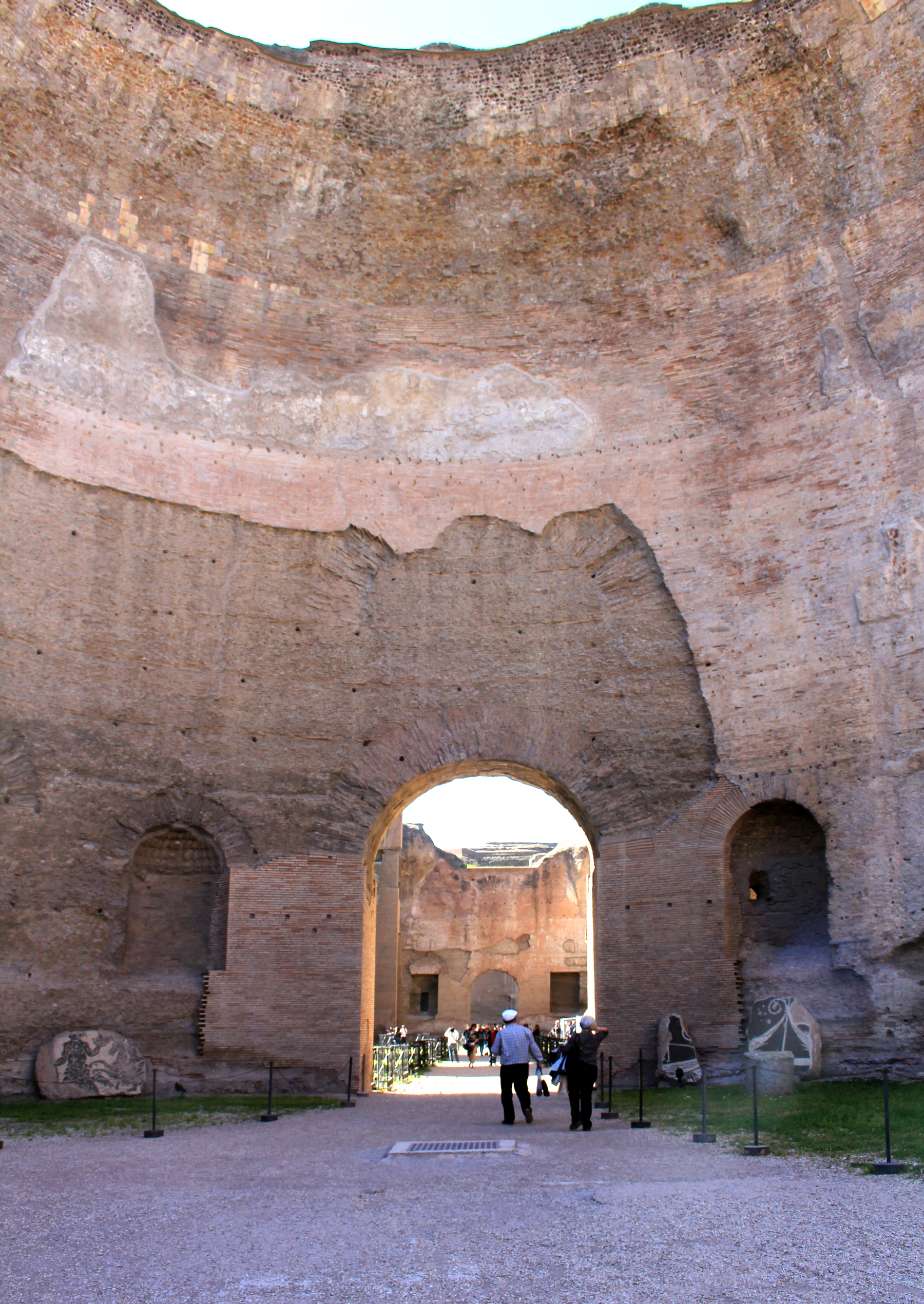 Ruins of the Baths of Caracalla, Rome, Italy